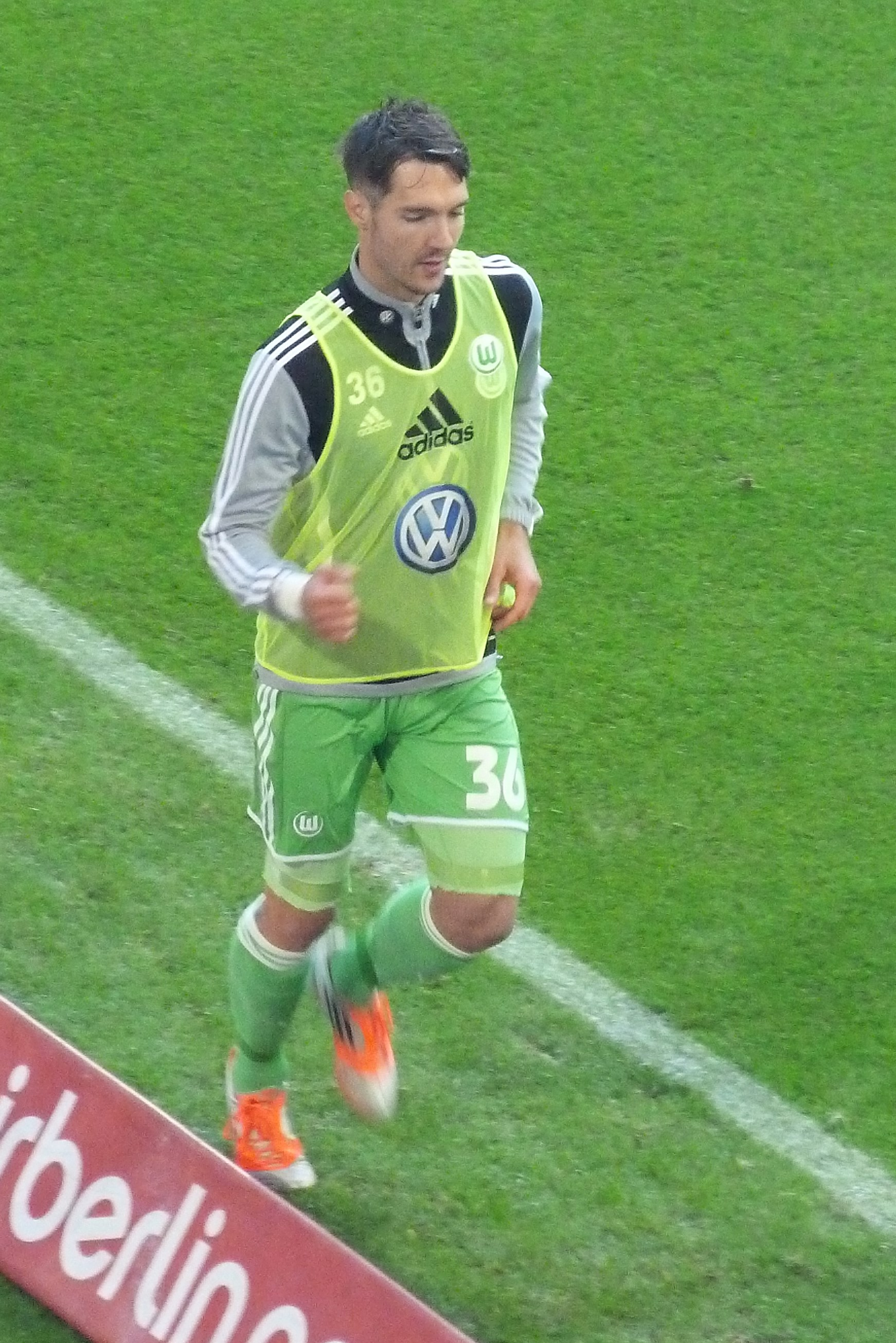 Srdjan Lakic as Player from VfL Wolfsburg